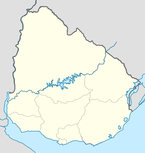 1830 map showing the nine original departments in which the Oriental Republic of Uruguay was subdivided